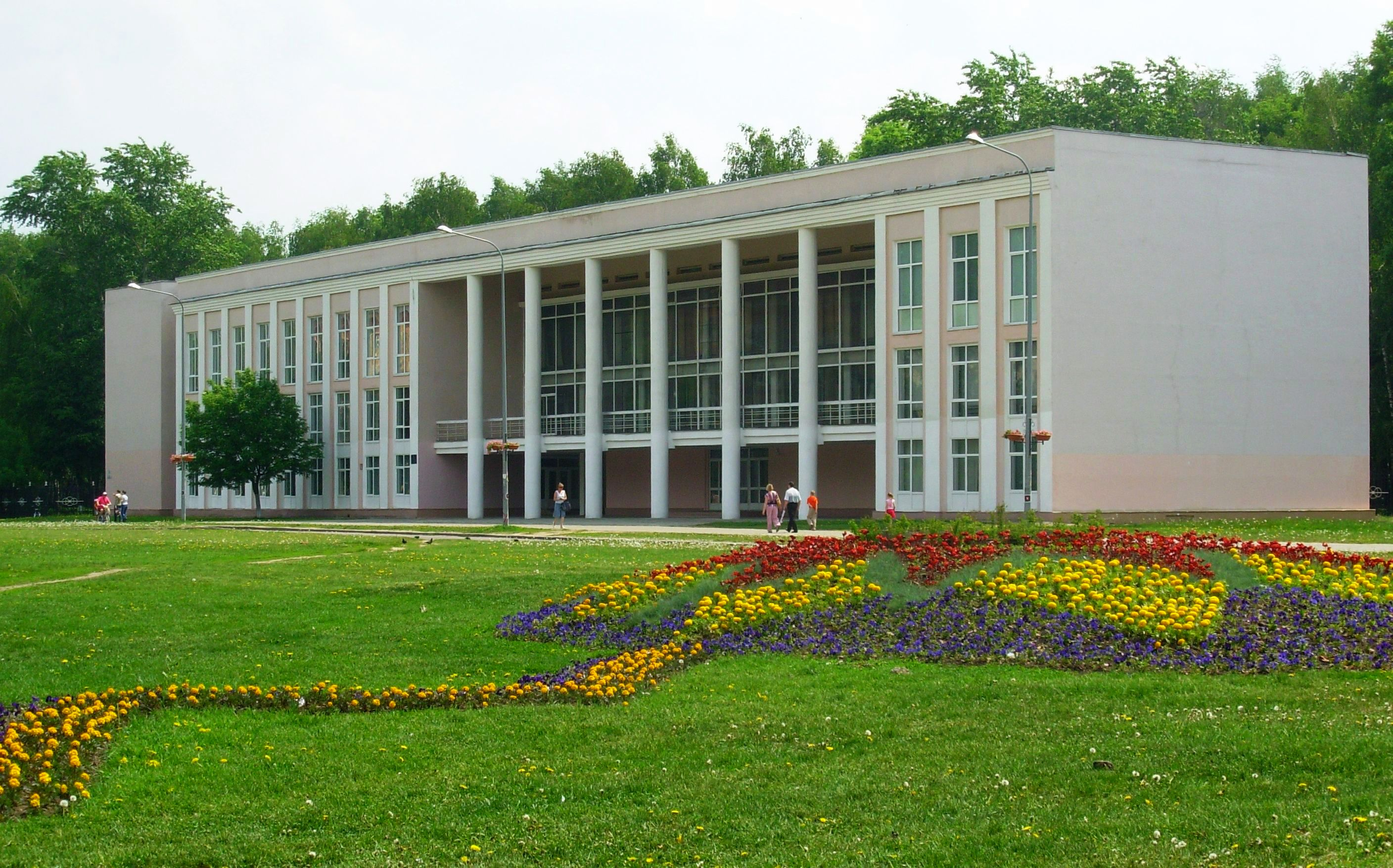 street